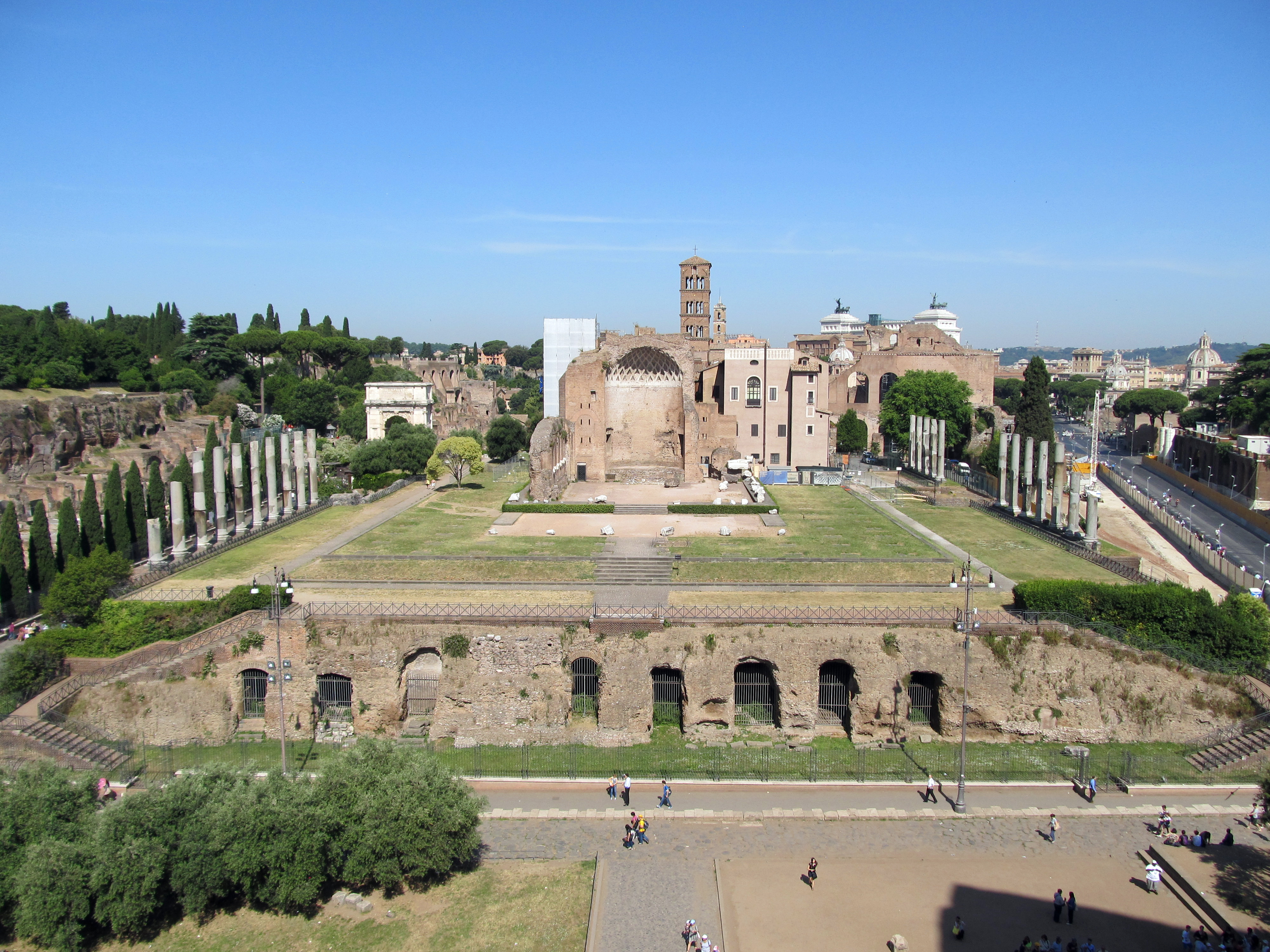 From the top level of the Colosseum, you get a good view of the city. Directly west is the Temple of Venus and Roma, thought to be the largest temple in ancient Rome. Built between 135-141 at the initiation of Hadrian, it was largely destroyed by an earthquake in the 9th century.